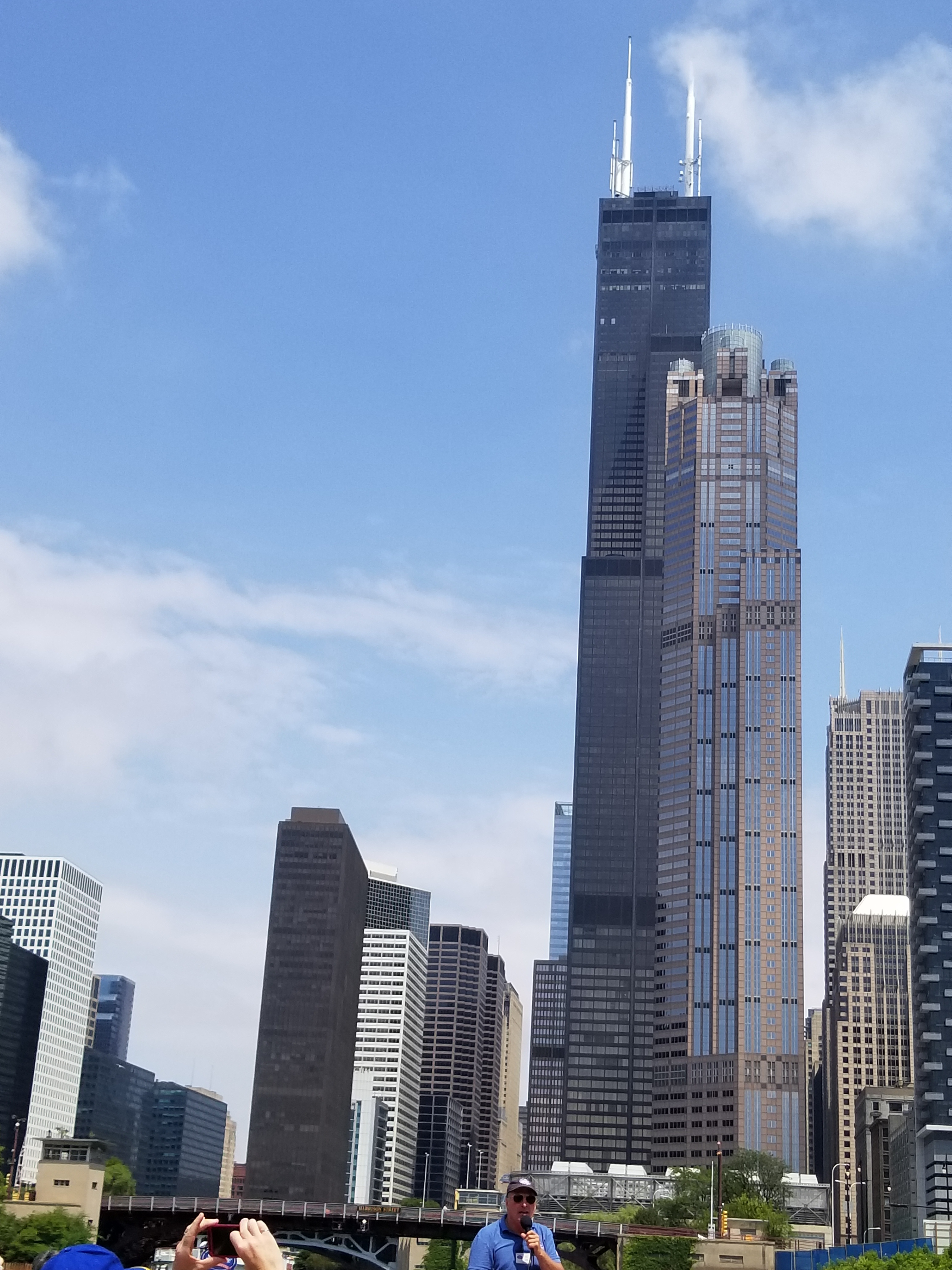 The Willis Tower, built as and still commonly referred to as the Sears Tower, is a 108-story, 1,450-foot skyscraper in Chicago, Illinois, United States.